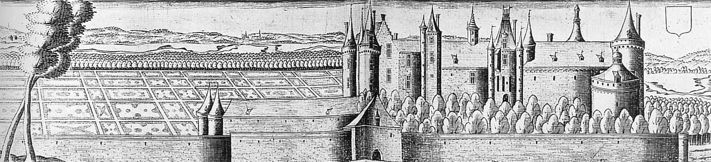 Gravure du château de Javarzay à Chef-Boutonne, Deux-Sèvres